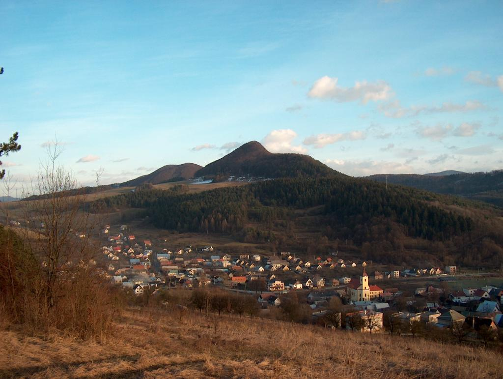 Slovak village Udica